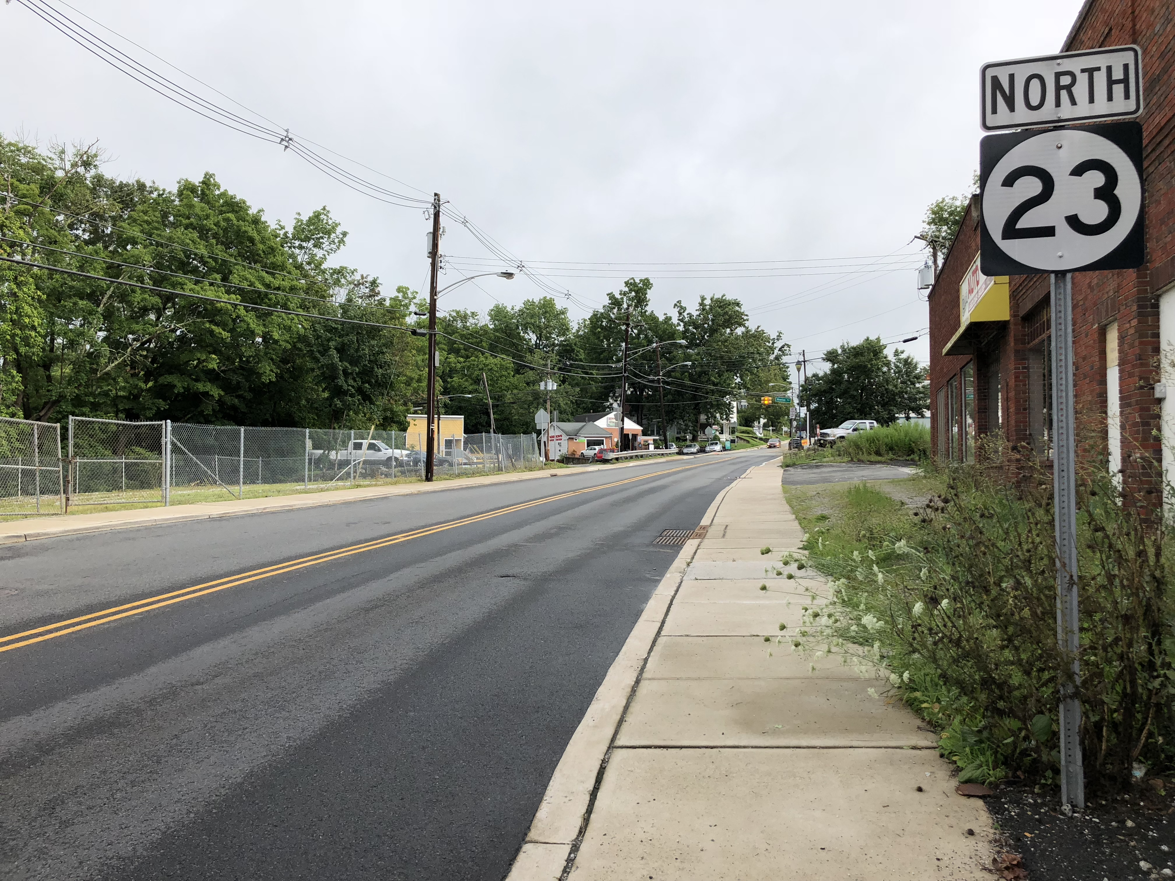 View north along New Jersey State Route 23 (Mill Street) just north of Sussex County Route 639 (Loomis Avenue) in Sussex, Sussex County, New Jersey